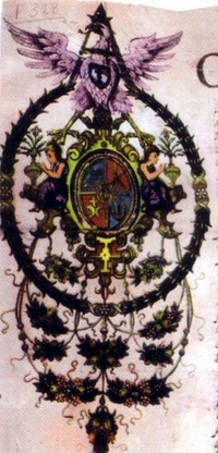 Coat of arms of Movileşti family on a document from 1599.